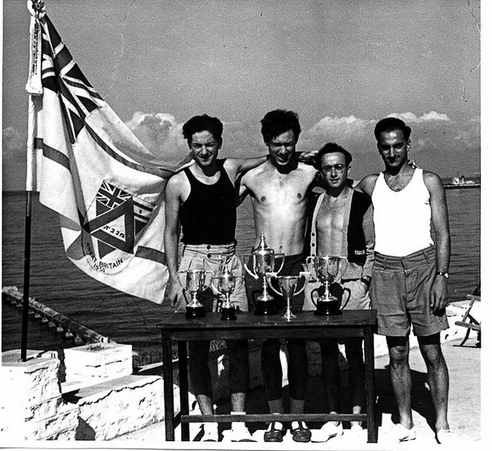 Great Britain showing their trophies at the 3rd Maccabiah